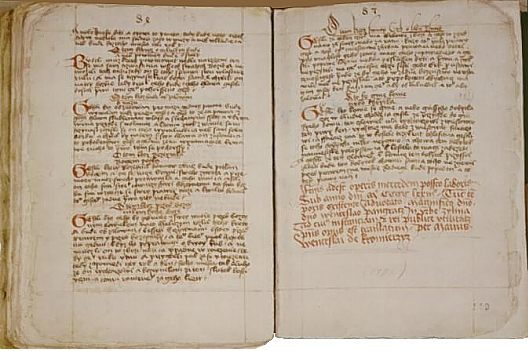 Žilinská kniha (The book of Žilina), written from 1378. till 1561.